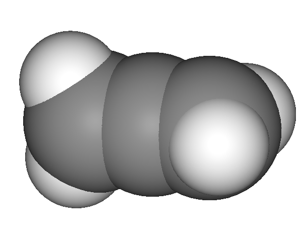 chemical structure of allene